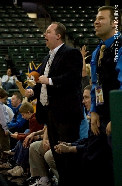 Owner Nathan Mumm at Explosion Game